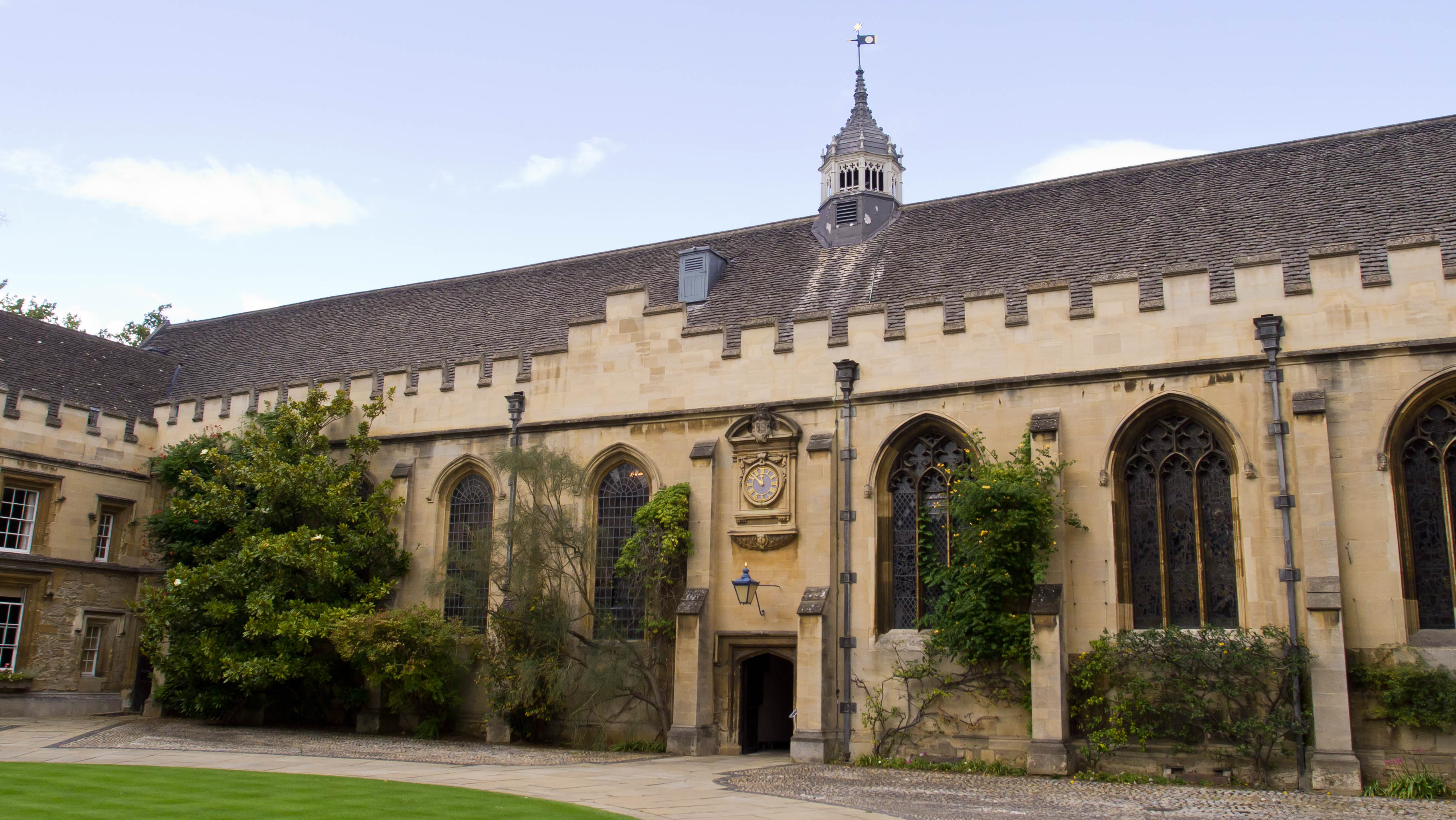 St John's College front quadrangle, showing clock and passageway between hall and chapel.